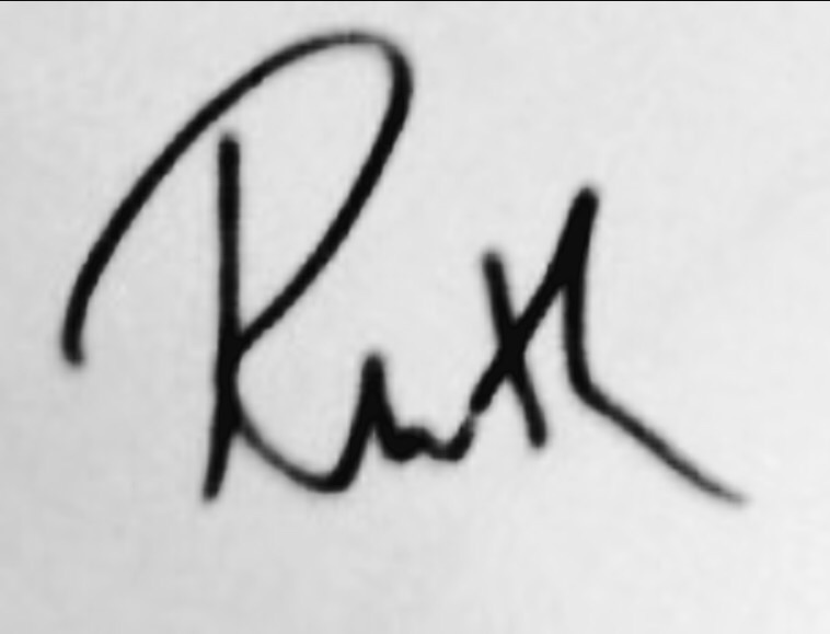 Autograph